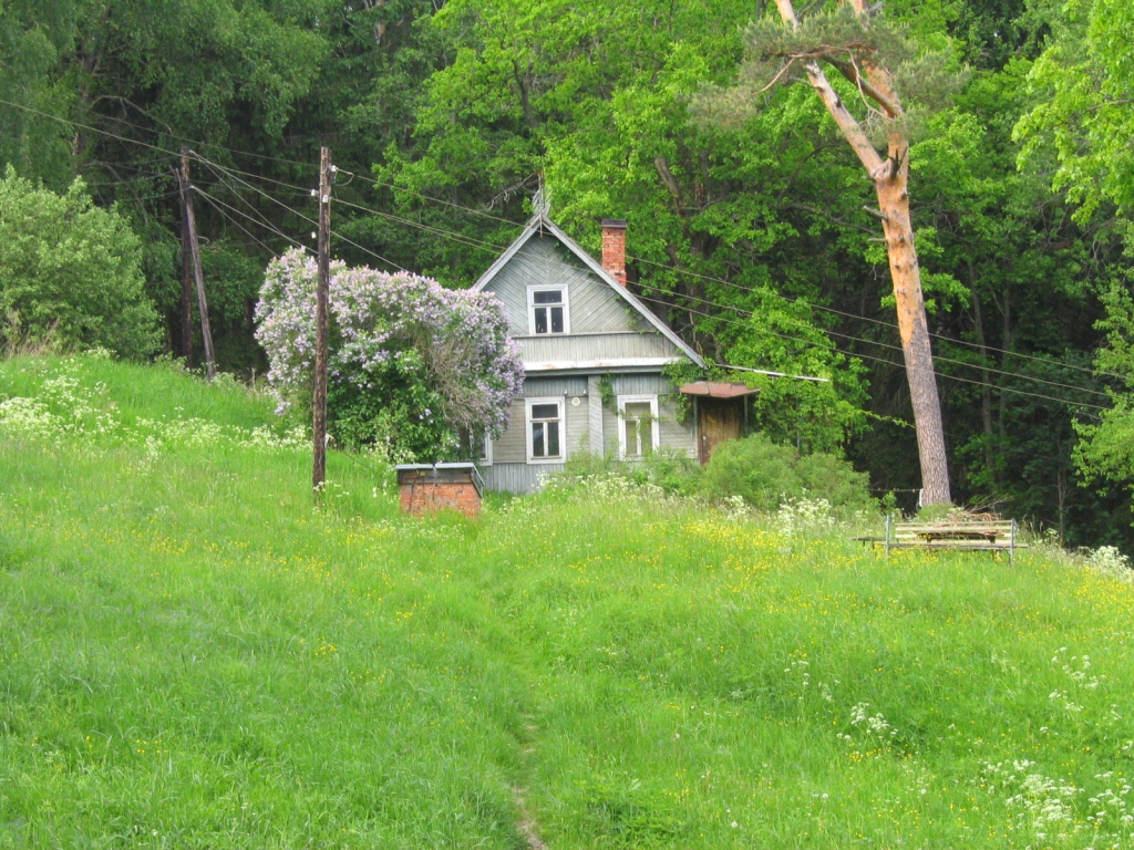 Zelezo 9